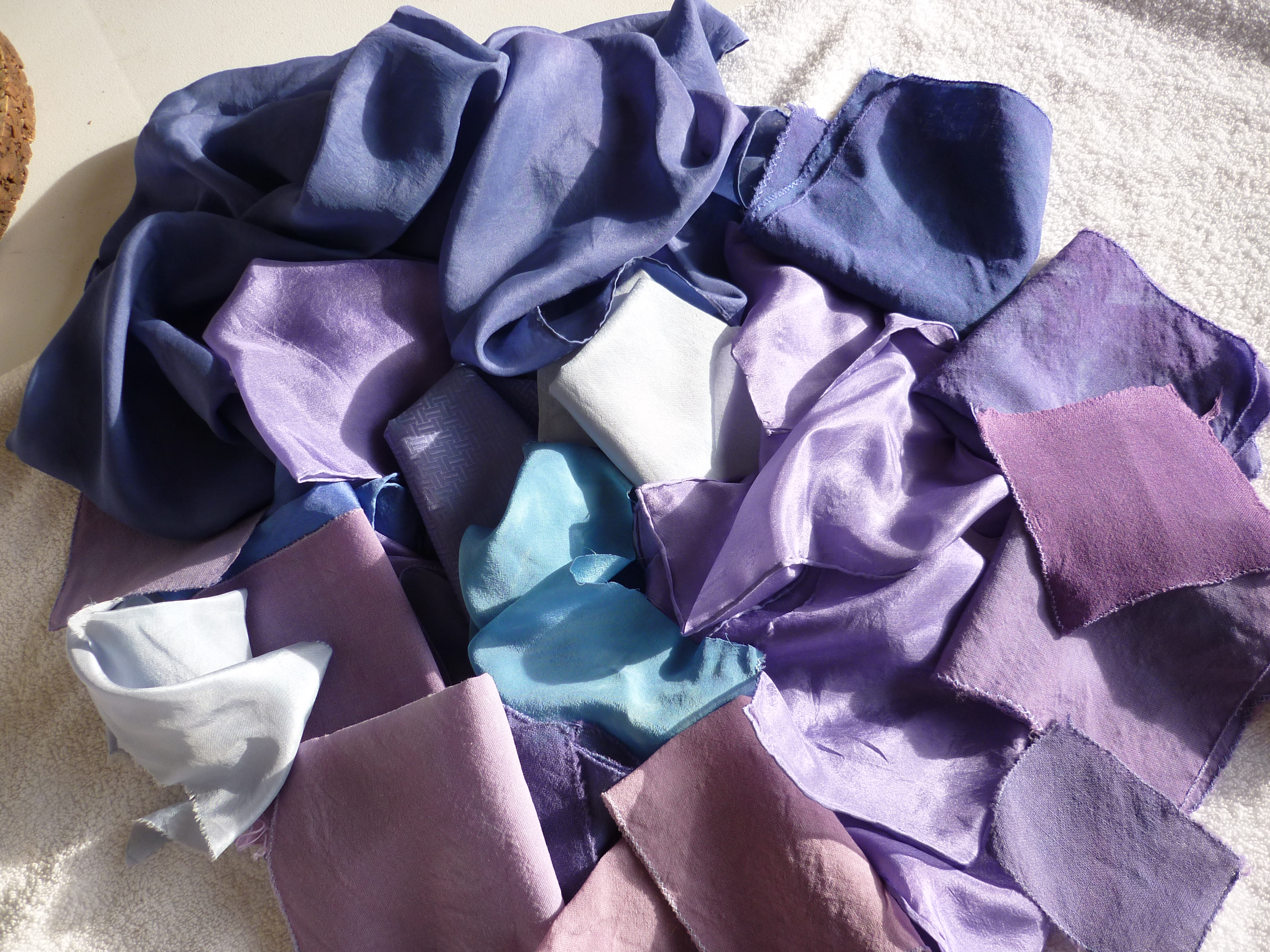 Purple dyeing: different shades of real purple on silk, dyed in a purple dye-bath